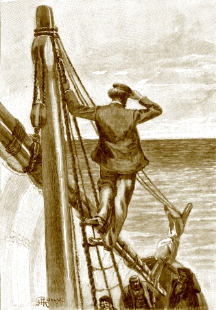 An illustration from Jules Verne's novel "Captain Antifer" (or "The Wonderful Adventures of Captain Antifer", 1894) drawn by George Roux.